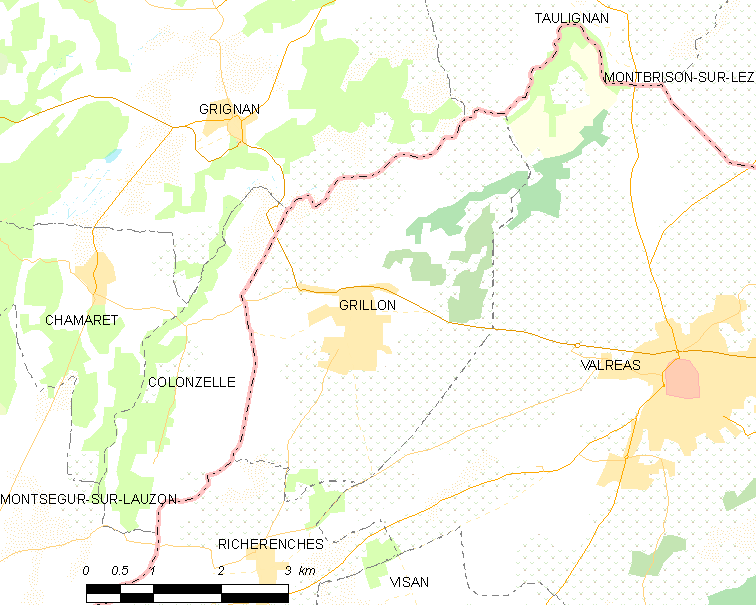 Map of French municipality Grillon